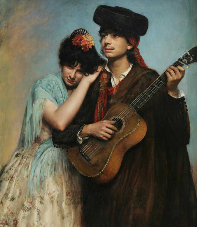 The Guitar Player